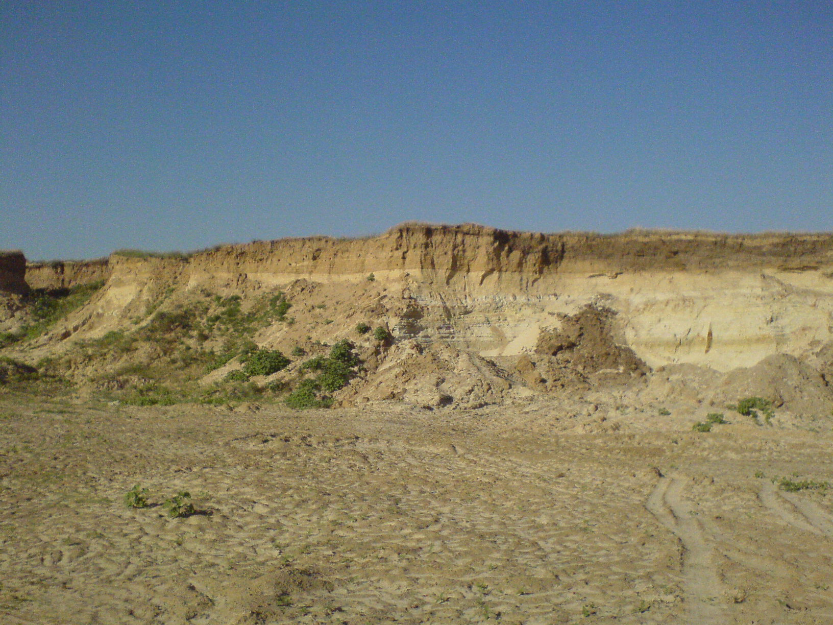 Sandy open-cast mine near Frolovo